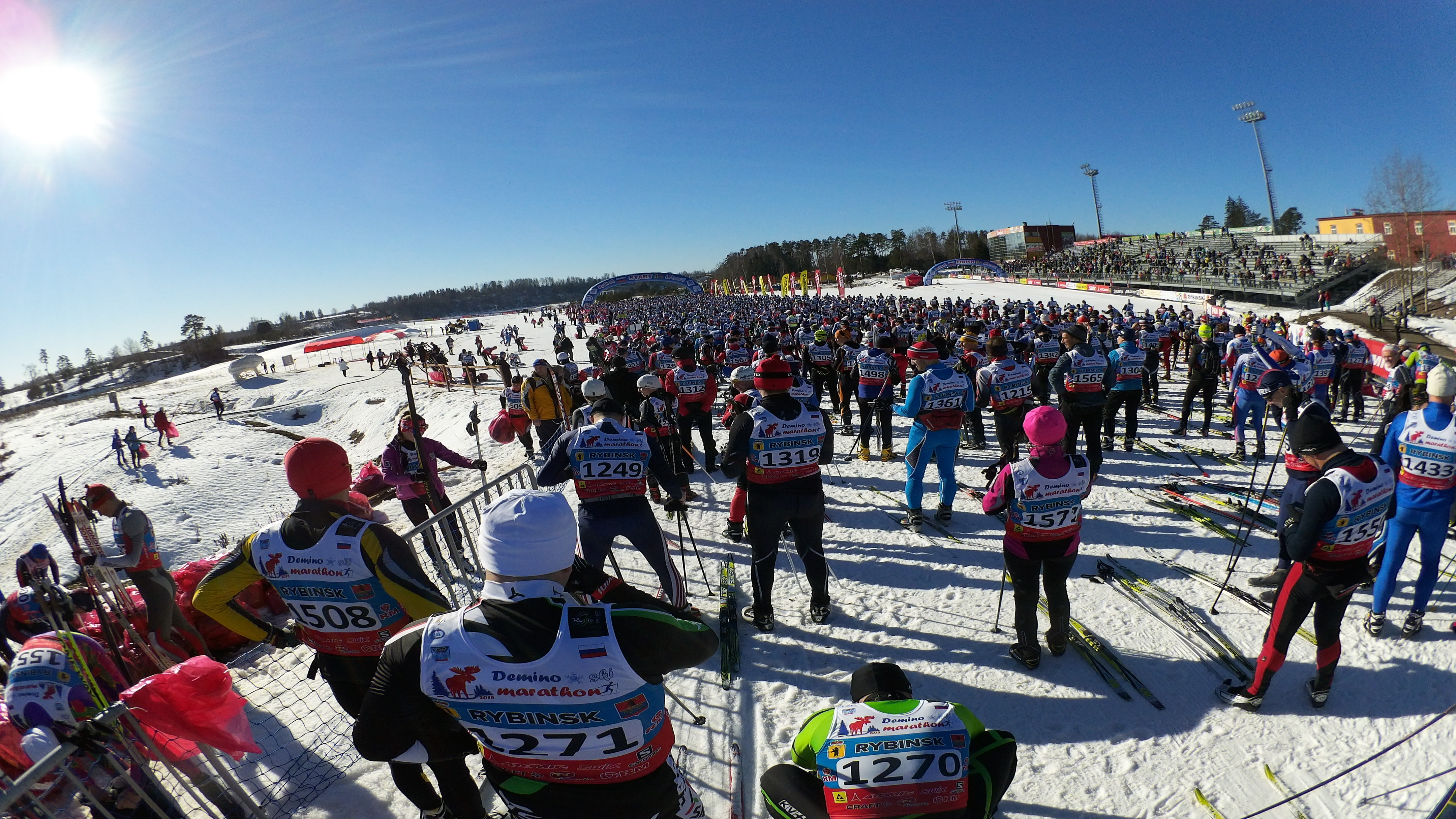 Demino Ski Marathon